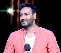 Ajay Devgn promote 'Drishyam' on the sets of Nach Baliye